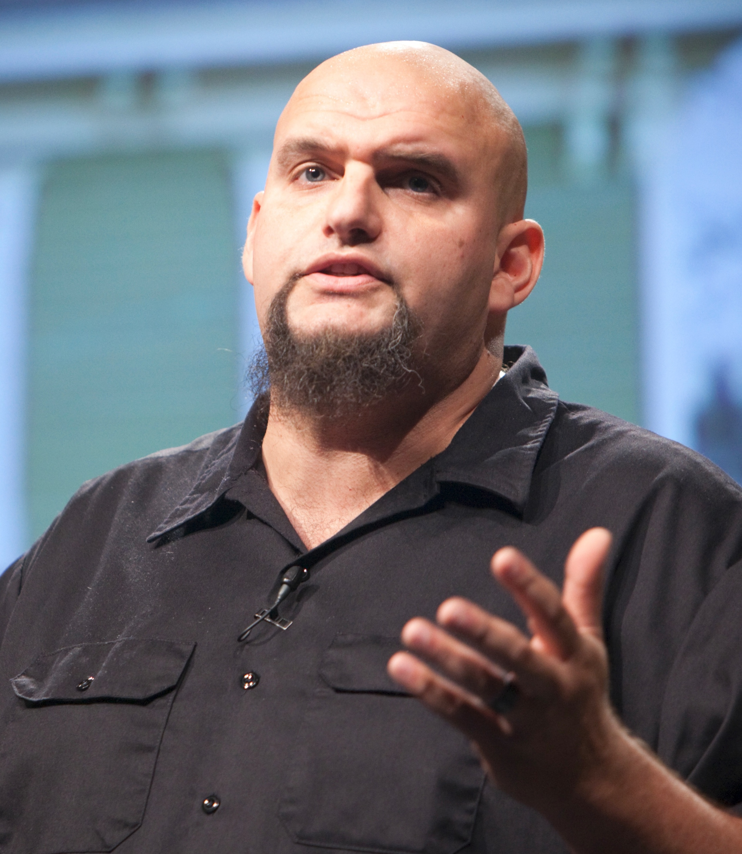 photo by Kris Krüg